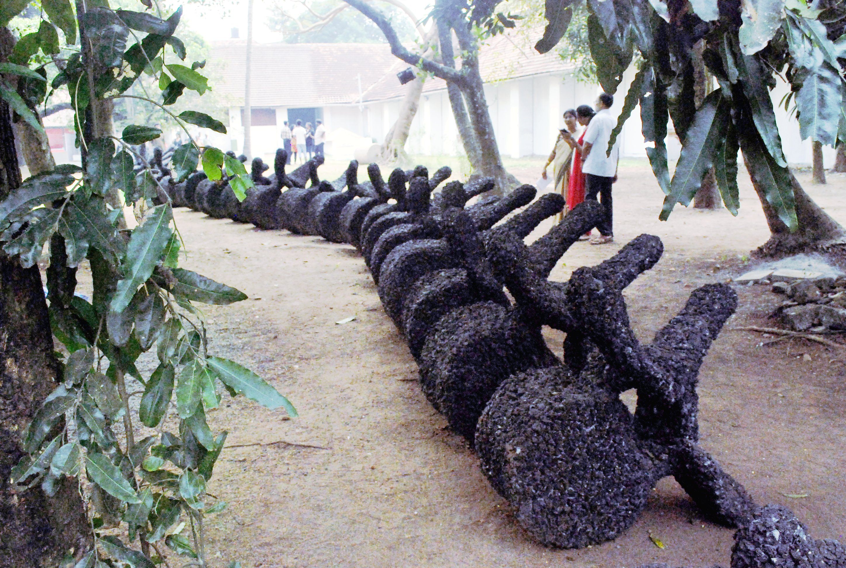 Visitors at Backbone by Santha muddaya in Kochi Muziris Binalle 2014